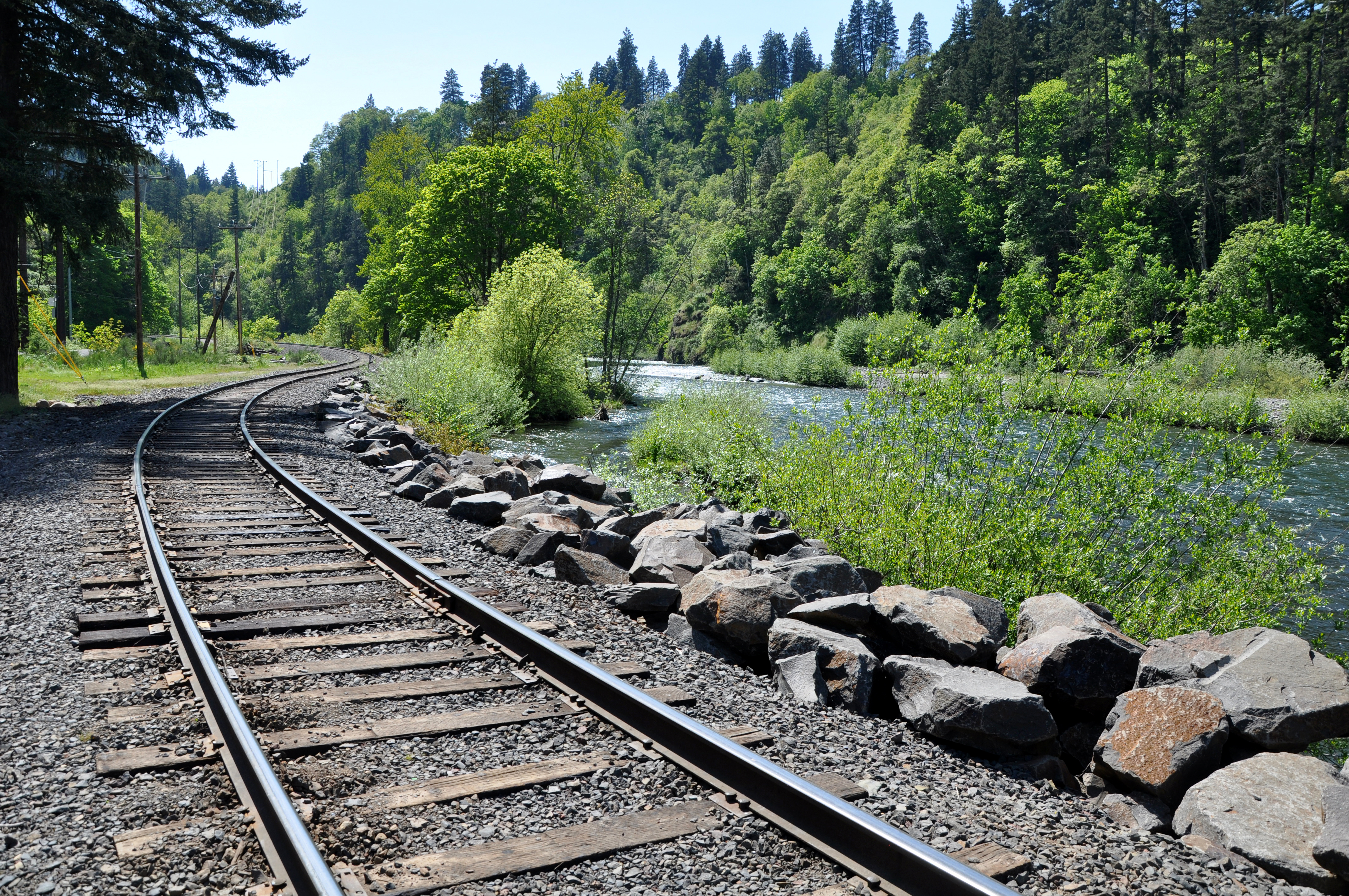 Hood River along the tracks of the Mount Hood Railroad. View is upstream from near the railroad bridge that carries the tracks over the river at the city of Hood River in the U.S. state of Oregon.